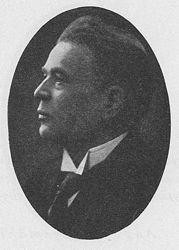 Finnish actor Hemmo Kallio, early 1930s.